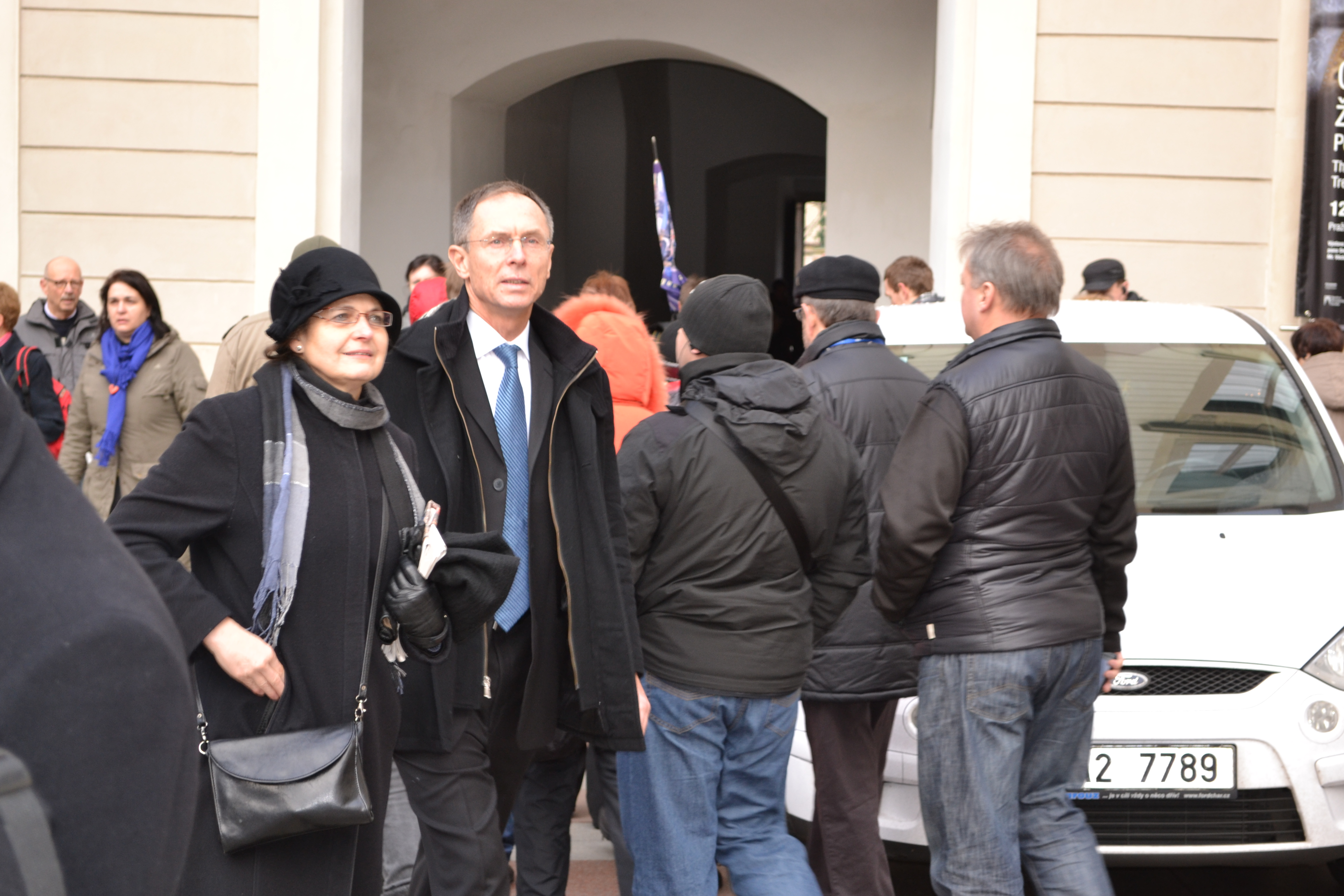 Jan Švejnar, Czech-born economist